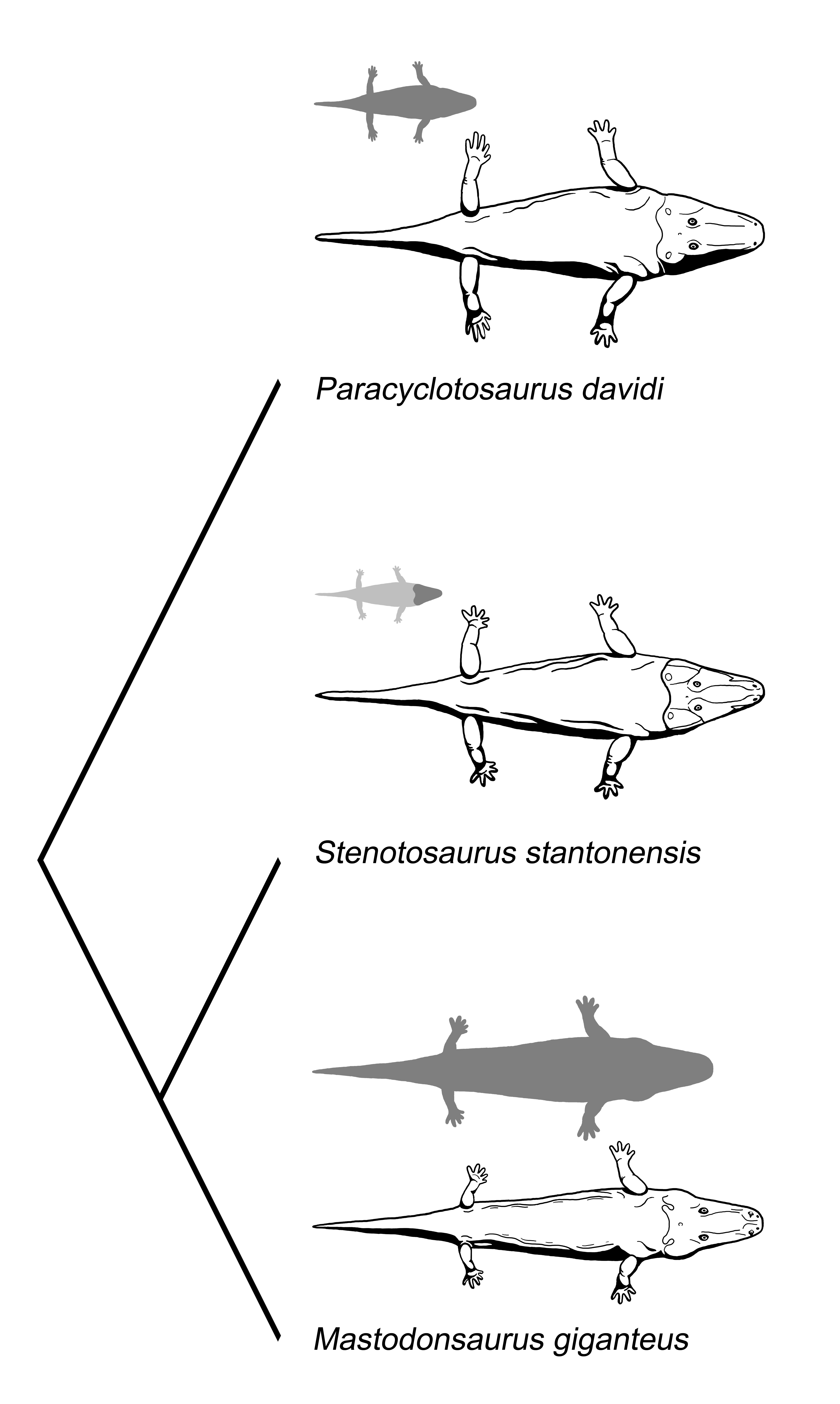 A diagram showing phylogenetic bracketing applied to reconstructions of temnospondyl amphibians. Paracyclotosaurus davidi and Mastodonsaurus giganteus are known from nearly complete skeletons, but Stenotosaurus stantonensis is known only from skulls. With phylogenetic bracketing, it can be inferred that Stenotosaurus had similar body proportions to Paracyclotosaurus and Mastodonsaurus because it is a descendant of their last common ancestor. Line drawings show similar proportions but are not to scale. Silhouettes show relative sizes. The relationships here are based on the analyses of Damiani (2001)[1] and Liu and Wang (2005)[2]. Proportions of Mastodonsaurus giganteus are based on Figure 54 of Schoch (1999)[3] and proportions of Paracyclotosaurus davidi are based on Figure 14 of Watson (1958)[4]. The head of Stenotosaurus stantonensis is based on Figure 25 of Damiani (2001)[5].